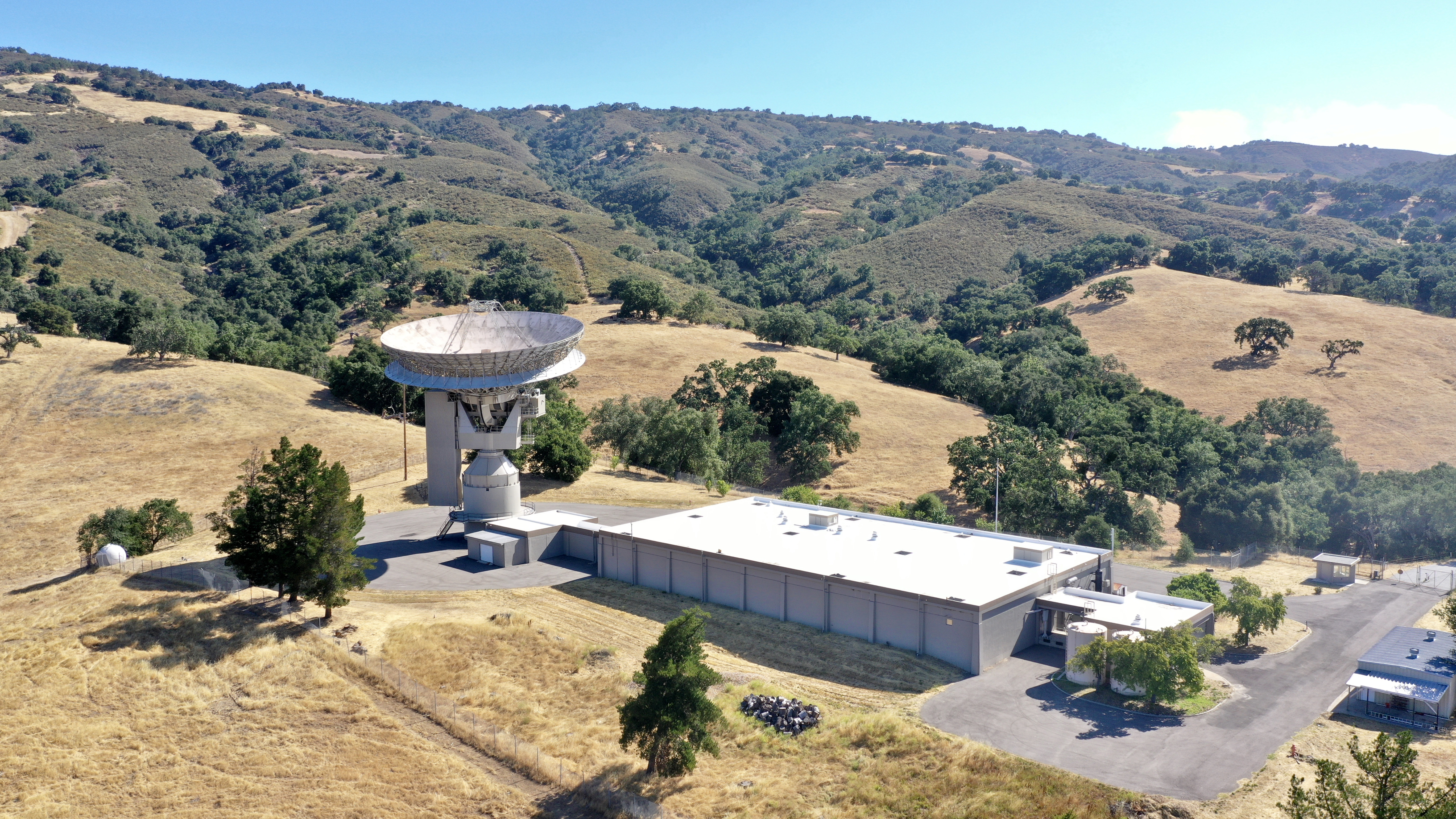 View of the Jamesburg Earth Station facility, including dish and building